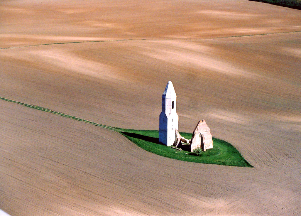 The temple in the puszta near Somogyvámos, Hungary.